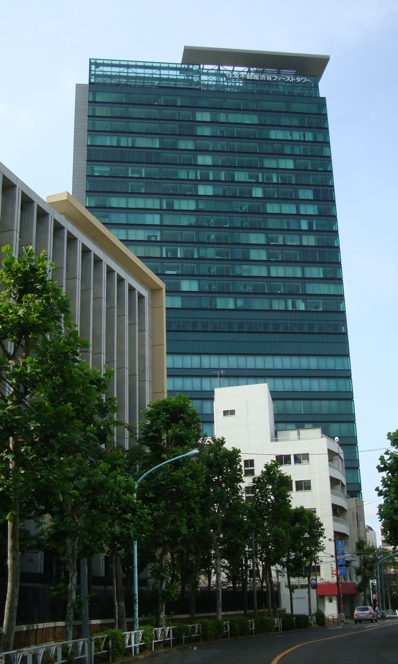 Sumitomo Fudosan Shibuya First Tower, Shibuya, Tokyo